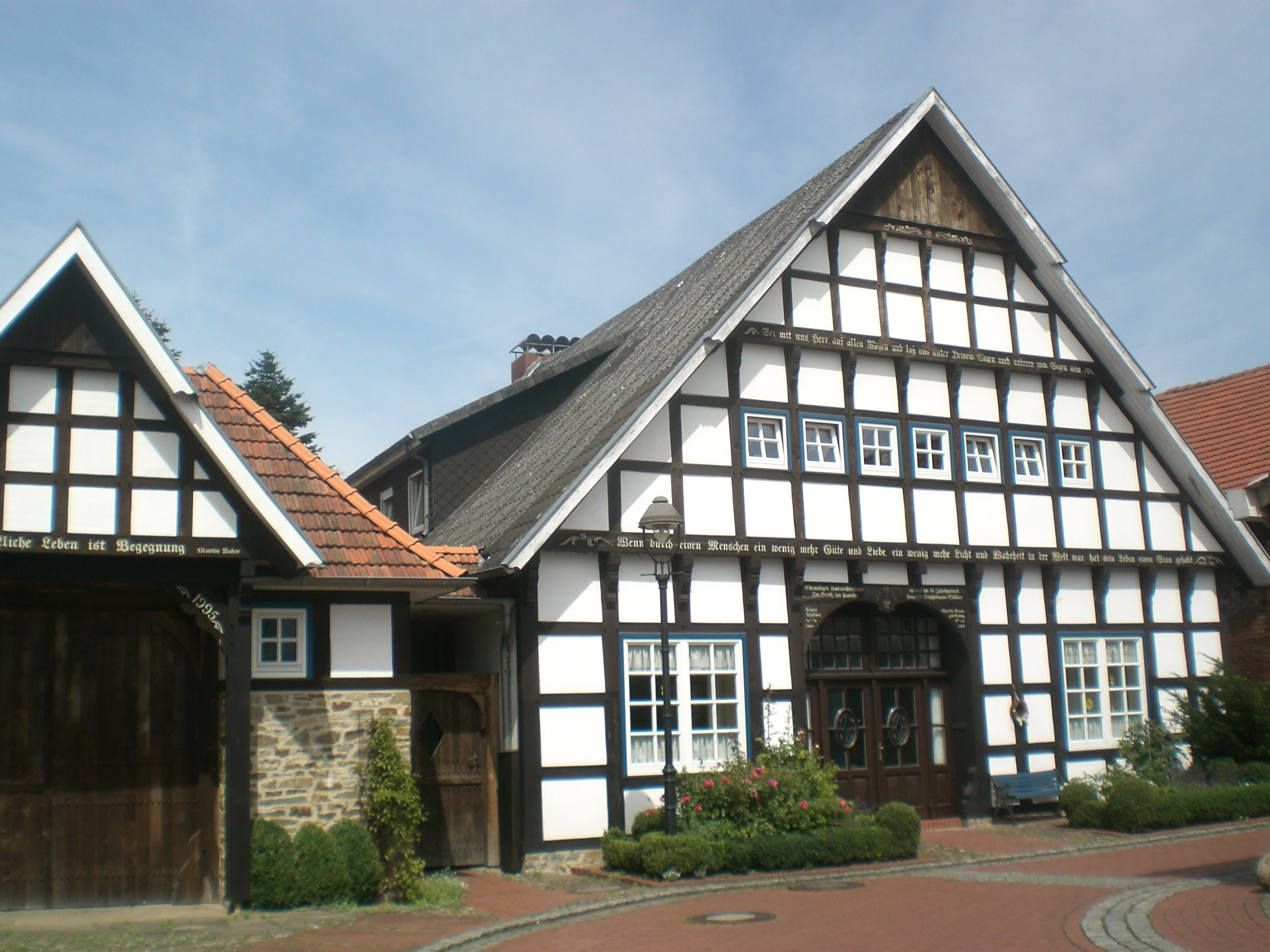 Timber framed house in Vörden, Neuenkirchen-Vörden, Lower Saxony, Germany